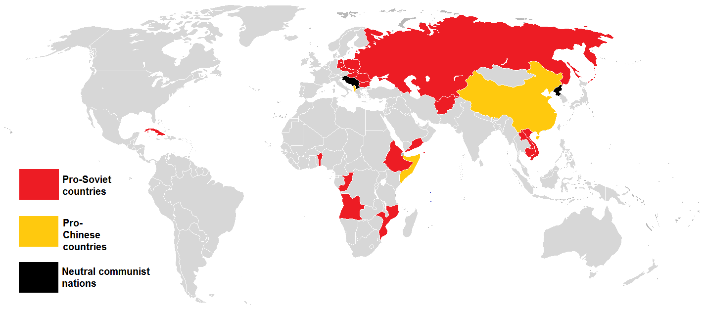 A map showing the relations of the communist states after the Sino-Soviet split as of 1980. The Union of Soviet Socialist Republics (USSR) and pro-Soviet communist states. The People's Republic of China (PRC) and pro-Chinese communist states. Neutral communist nations (North Korea and Yugoslavia) Non-communist states.